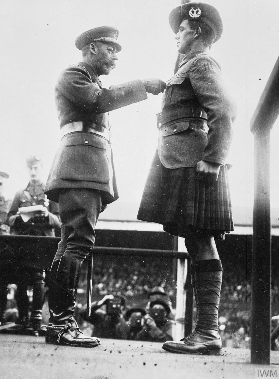 King George V presents the Victoria Cross to Private George Imlach McIntosh, 1/6th Battalion, Gordon Highlanders.